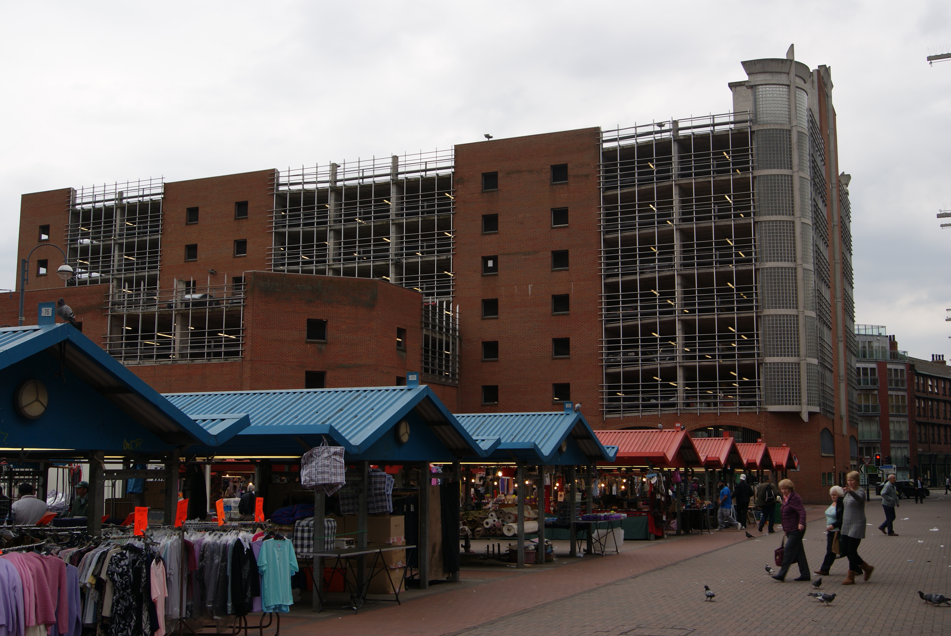 Outdoor stalls at the Kirkgate Market in Leeds, West Yorkshire. Note the Markets multi-story car park in the background. Taken on the afternoon of Tuesday the 4th of May 2010.